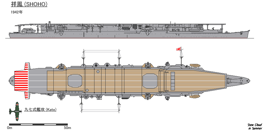 Figure of Japanese aircraft carrier SHOHO in 1942.